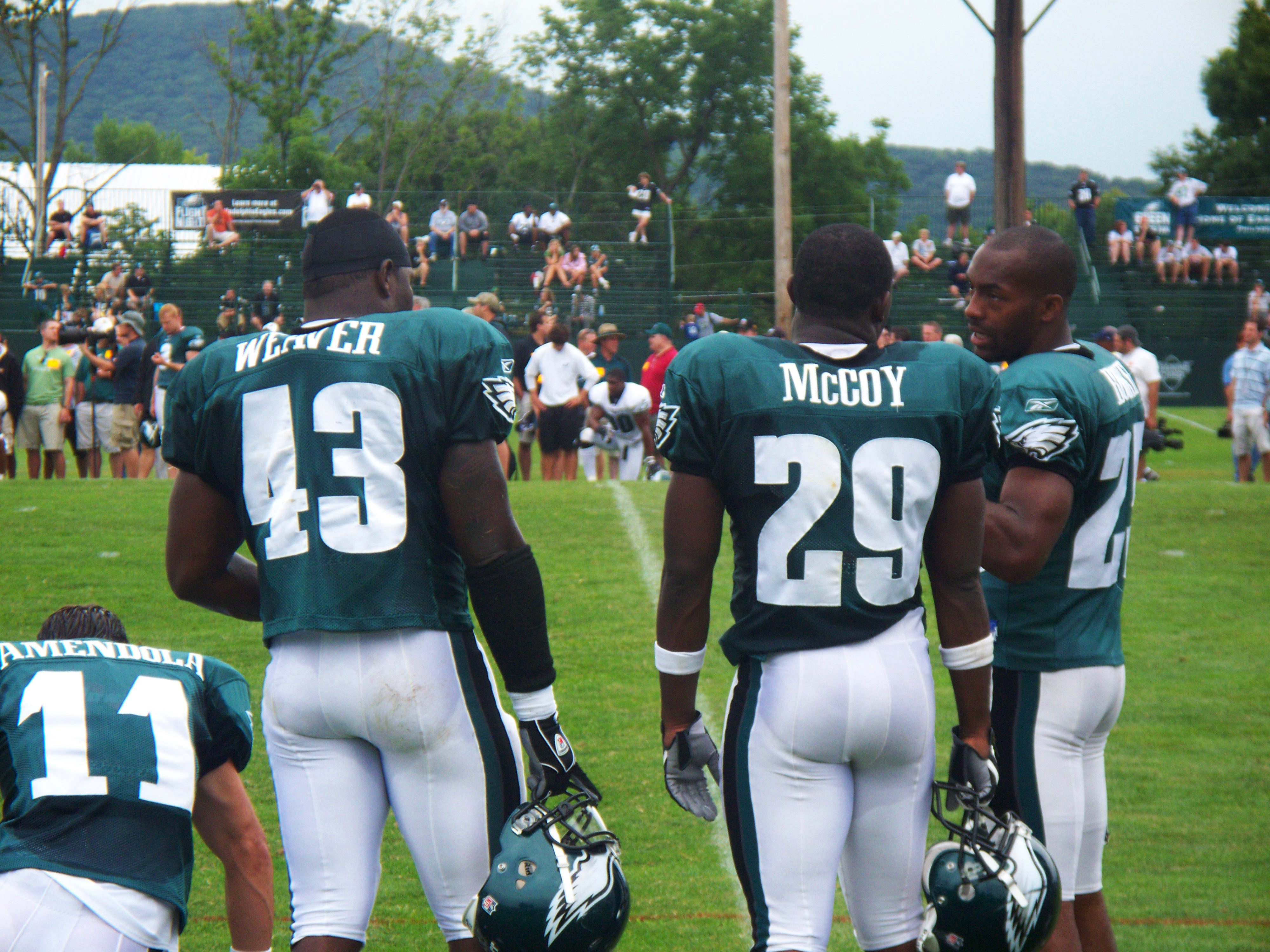 Philadelphia Eagles RB LeSean McCoy during 2009 training camp